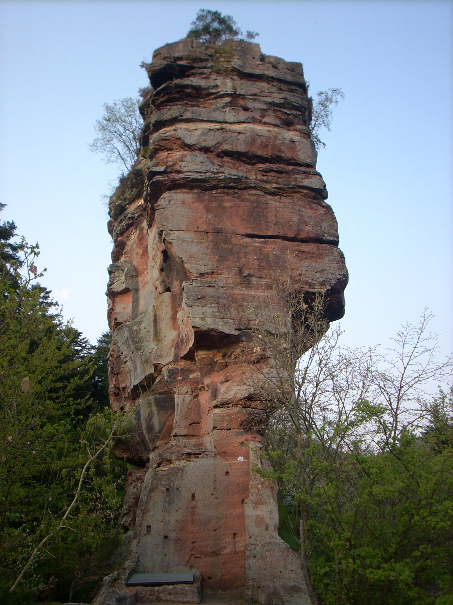 Vieux-Windstein castle, Alsace